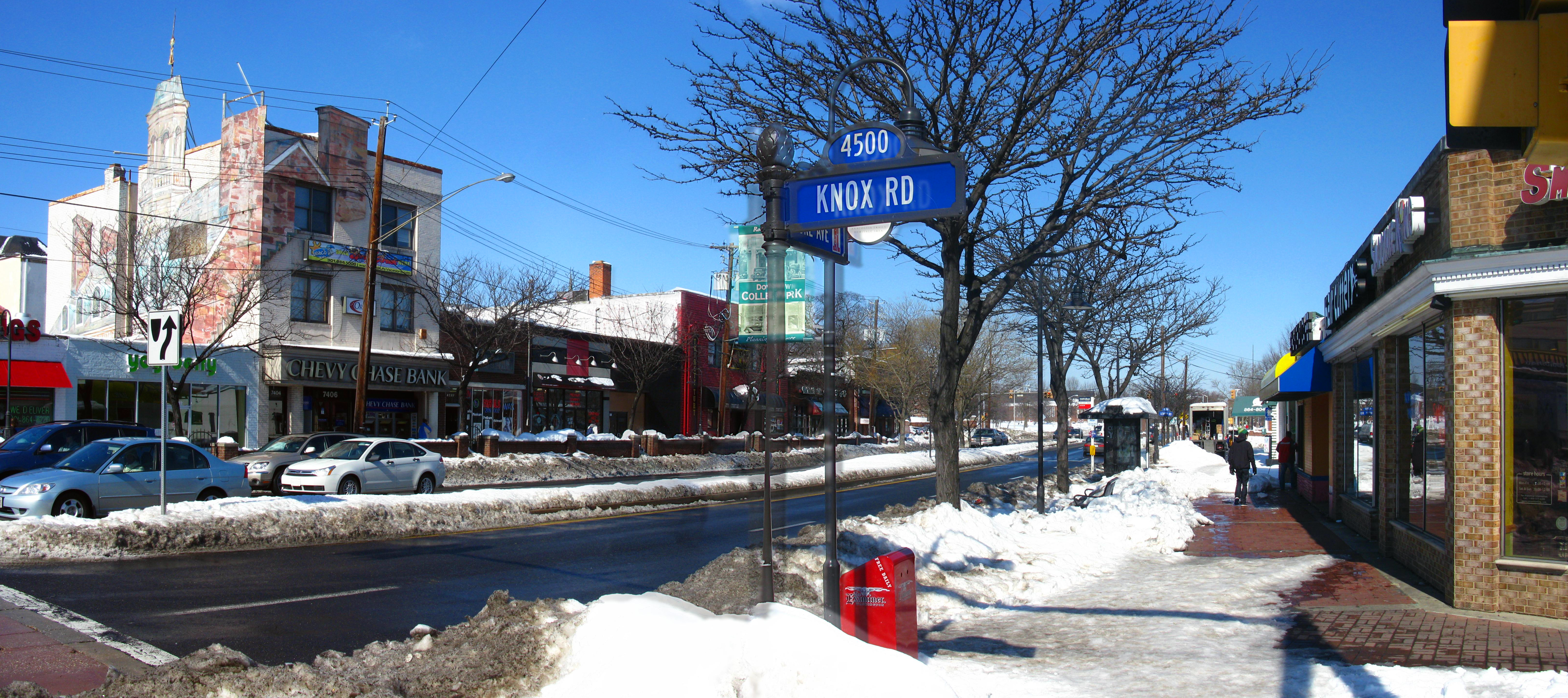 2010 02 12 - 6161-6162 - College Park - US 1 at Knox Rd